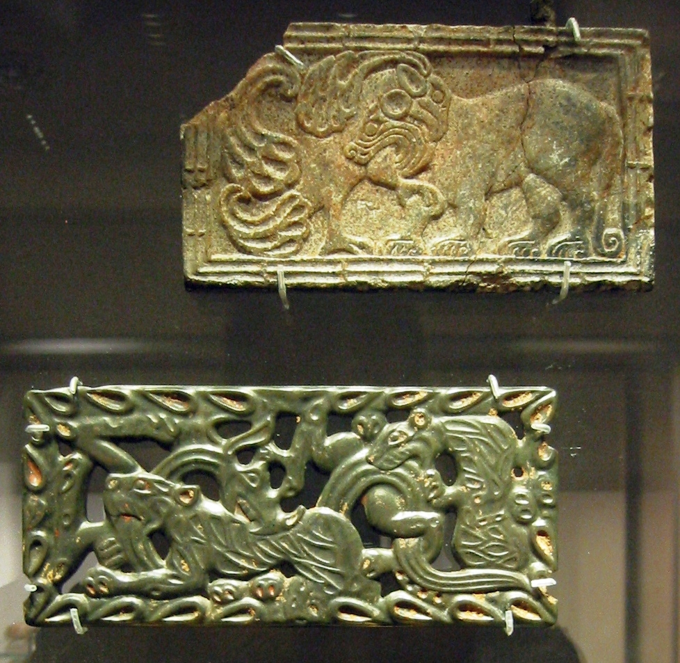 Chinese jade and steatite plaques. 4th-3rd century BCE. Special exhibition at the British Museum, August 2005. Personal photograph.